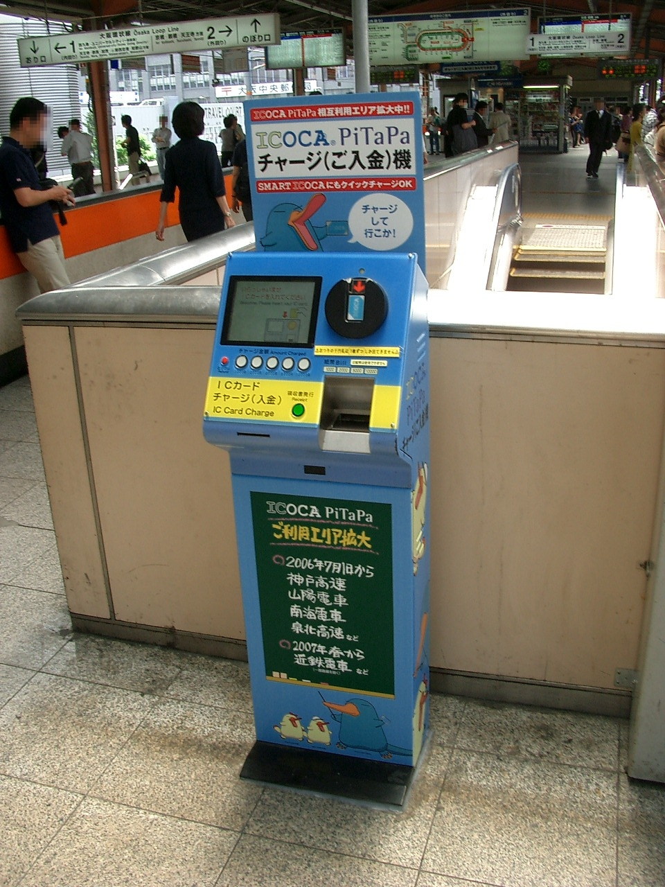 Its photo is simplest charging machine in platform of track 1 and 2. ja: ICOCAの簡易チャージ機。大阪駅の1, 2番線のプラットフォーム上にて。